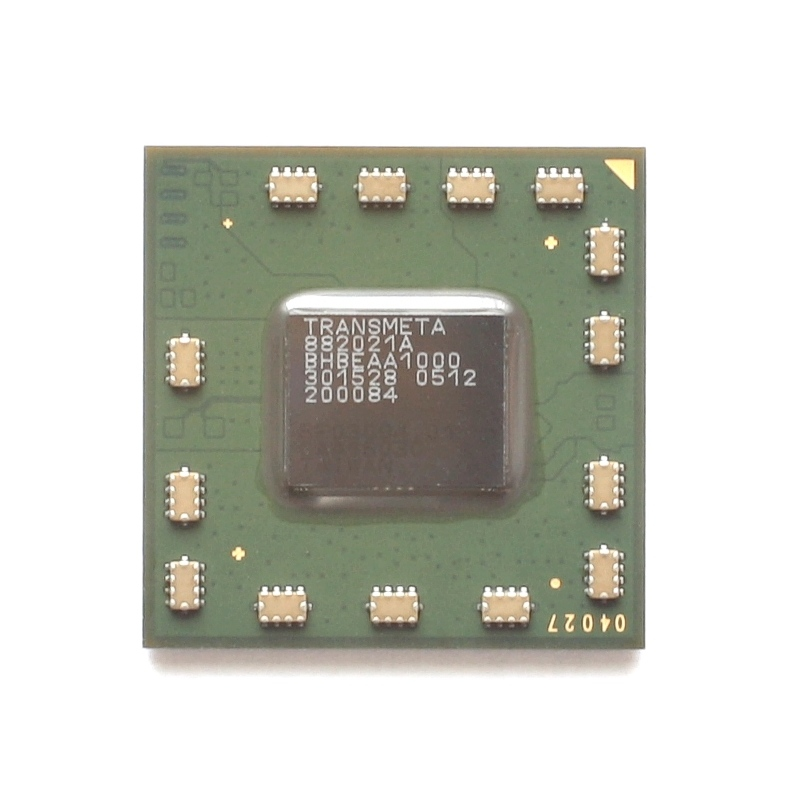 CPU Transmeta Efficeon 2 TM8820.